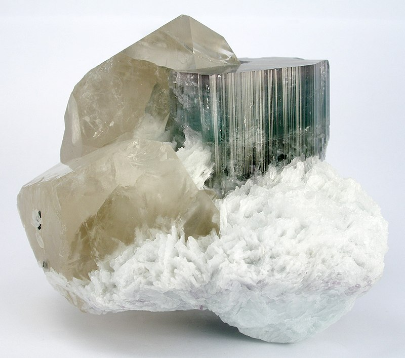 Albite, Quartz Locality: Little Three Mine (Little 3), Ramona District, San Diego County, California, USA (Locality at ) Size: cabinet, 11.5 x 9.1 x 8.4 cm Purple-Capped Tourmaline, Quartz, Albite This is a San Diego County specimen so outstanding, so atypical, that one at first thinks it must be Afghani. It is a purple-capped, gemmy, matrix tourmaline from the famous old Stewart Mine: Mined 6/11/88 from a pocket in the roof of the Little Joe II tunnel of the Stewart Mine. The specimen was found on the floor of the tunnel minus the top of the main quartz crystal. Week later, the miners searched the pile of rubble building up on the tunnel floor under the pocket and located the top of the quartz crystal, now repaired (fairly cleanly) back on the specimen. The tourmaline itself is not repaired, only the quartz termination flanking it. The tourmaline is pristine on the display face, though contacted and missing a bit on the rear-right side. This is a superb display specimen and a unique San Diego County piece, with great pedigree. I have not seen another example of the purple caps from Stewart, rare as they are, on matrix and so large. Chuck has added this comment to the draft: This specimen was collected prior to Blue's involvement. Lynn Agabashian was running the shop at the time and Jose was doing the miningBy the way, this was the first serious SD Co specimen I purchased, directly from Lynn and Gems of Pala, in 1988. Ex. Chuck Houser Collection.